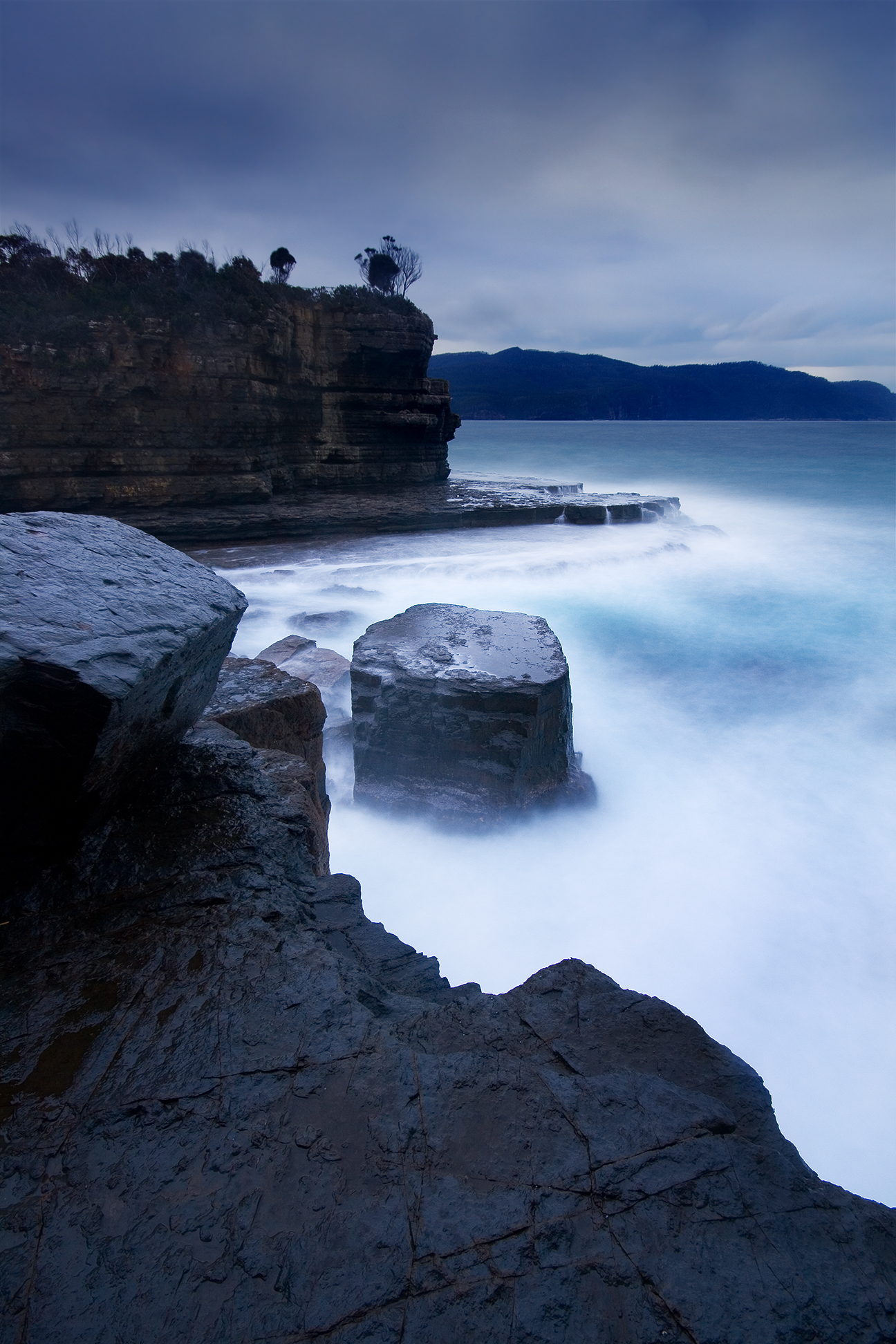 Seascape at Fossil Bay. Tasman peninsula, Tasmania, Australia.